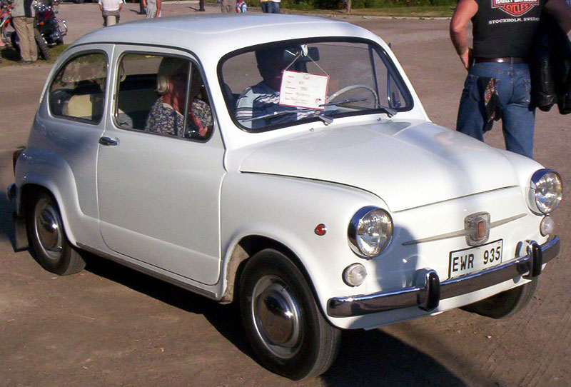 Fiat 600 D 1967